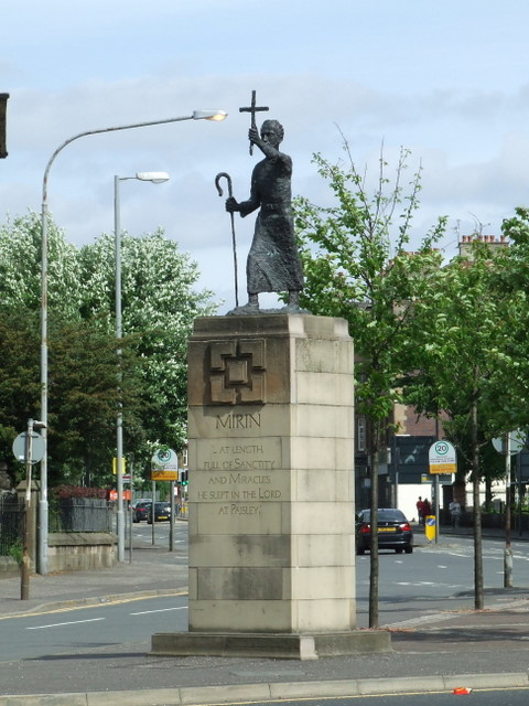 Mirin On a traffic island outside St Mirin's cathedral. The inscription reads as follows... _at length, full of Sanctity an Miracles, he slept in the Lord at Paisley